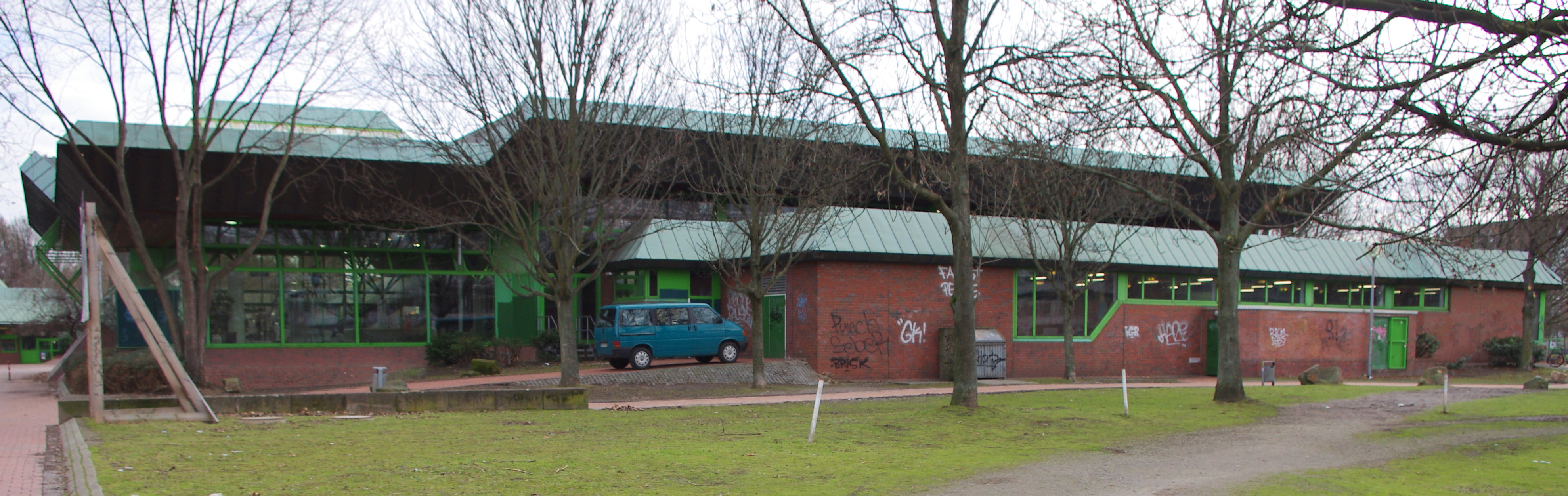 Swimmingpool Nordbad Dortmund